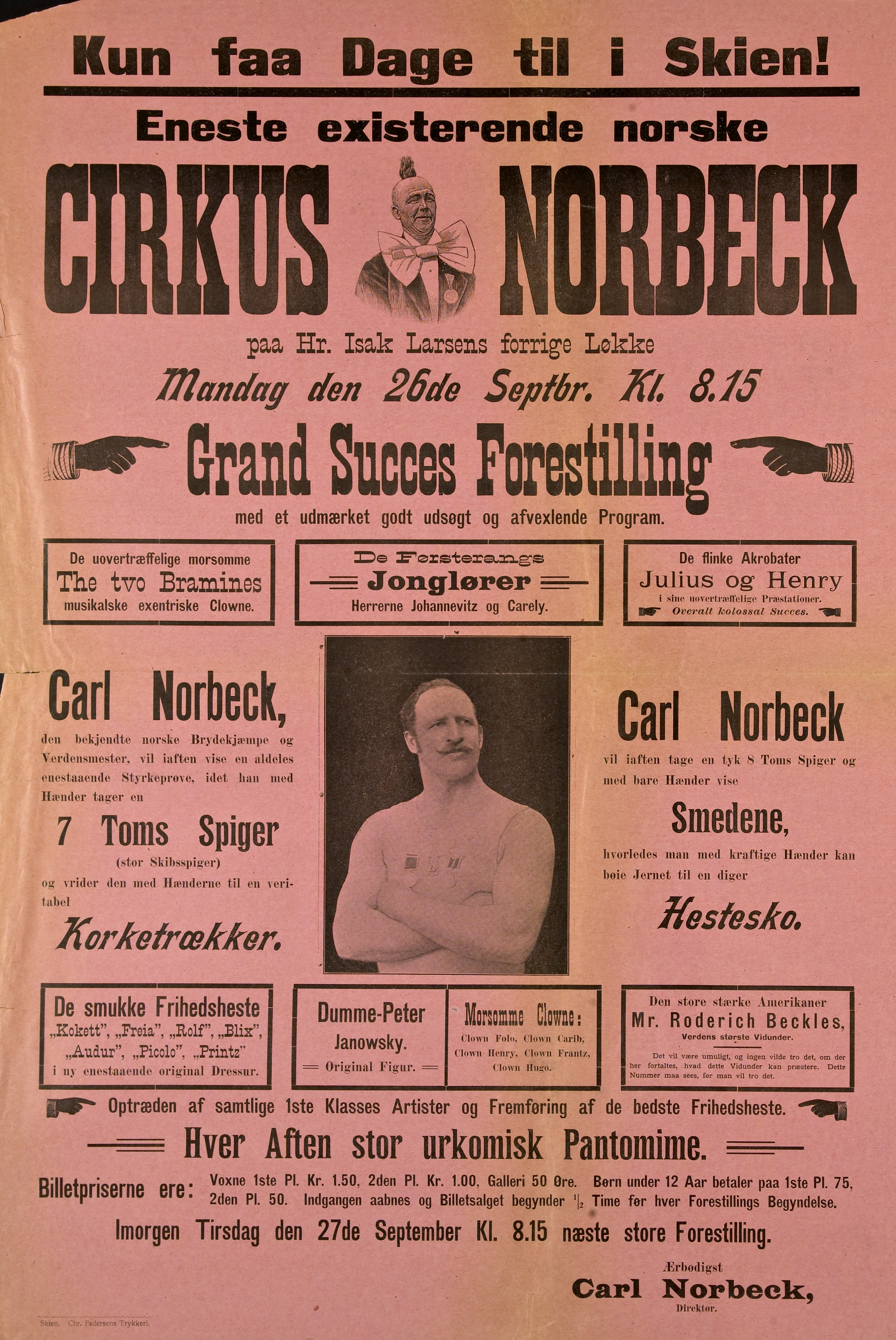 Beskrivelse / Description: Plakat / Poster (sirkusplakater) Dato / Date: [190-?] Eier / Owner Institution: Nasjonalbiblioteket / National Library of Norway Lenke / Link: Bildesignatur / Image Number: no-nb_plktr_01720